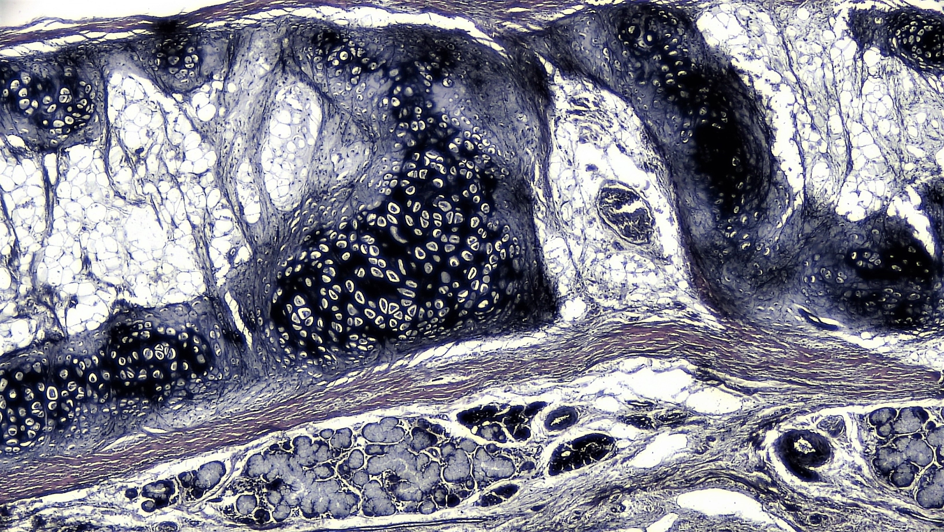 cross section: mammalian elastic cartilage magnification: 40x